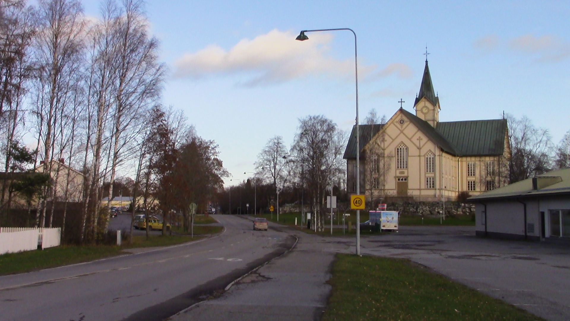 Kauppatie road as seen from the crossing of connecting road 2680 in Merikarvia, Finland. The road works as main street in Merikarvia center.